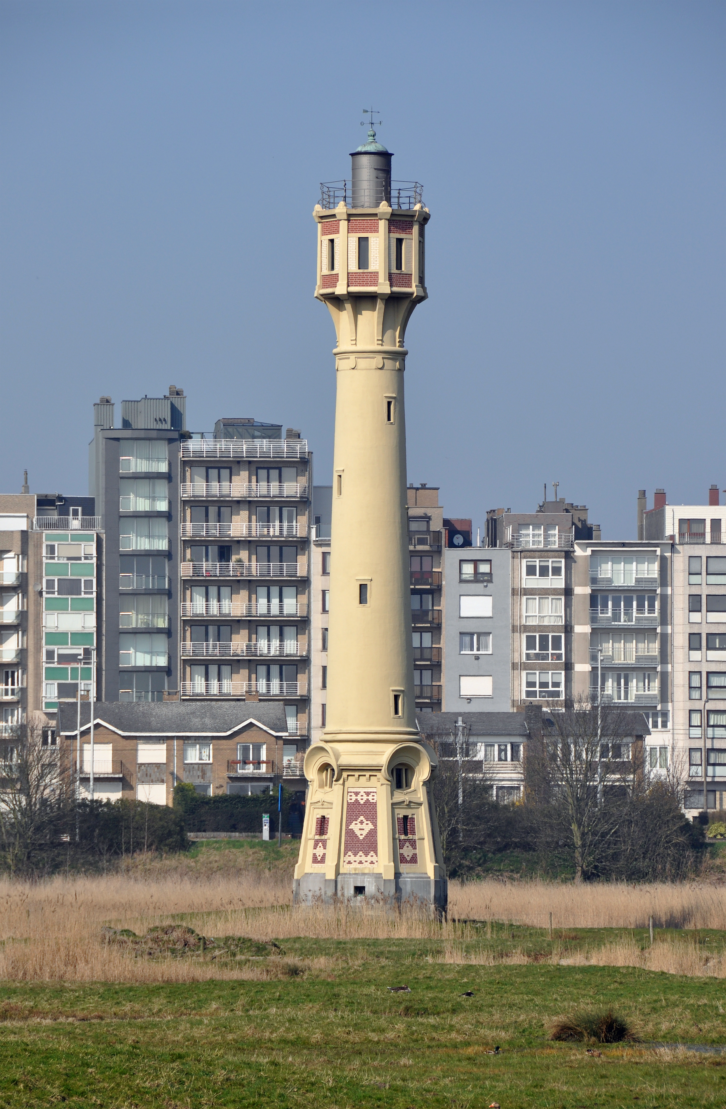 Knokke-Heist (Belgium): the lighthouse of Heist, built in 1907 in connection with the port of Zeebrugge, listed as a heritage building since 1981, out of use since 1983, renovated in 2000 (remark: the sea lies behind the buildings!)